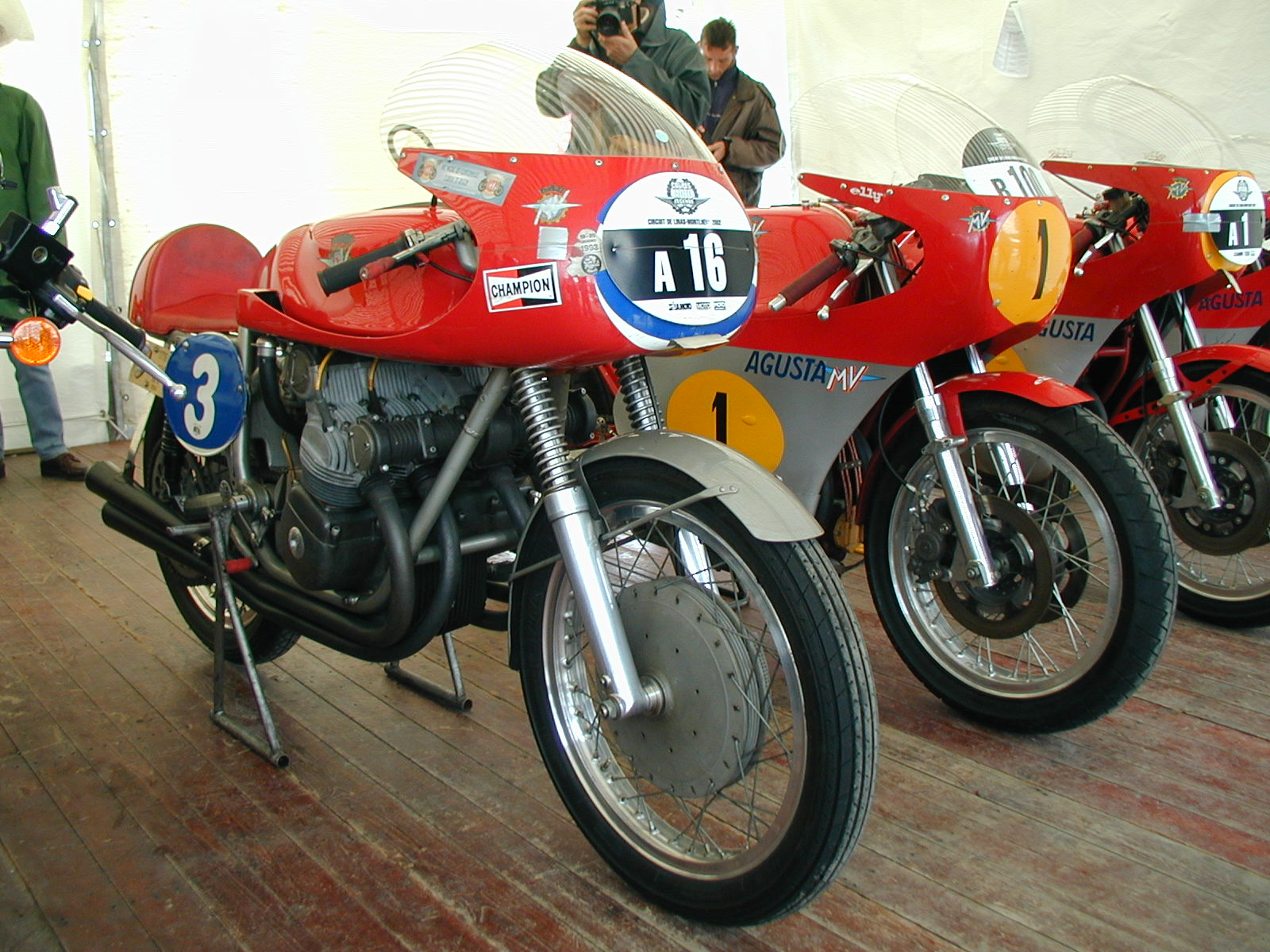 Old racing MV Agusta Picture : Gérard Delafond